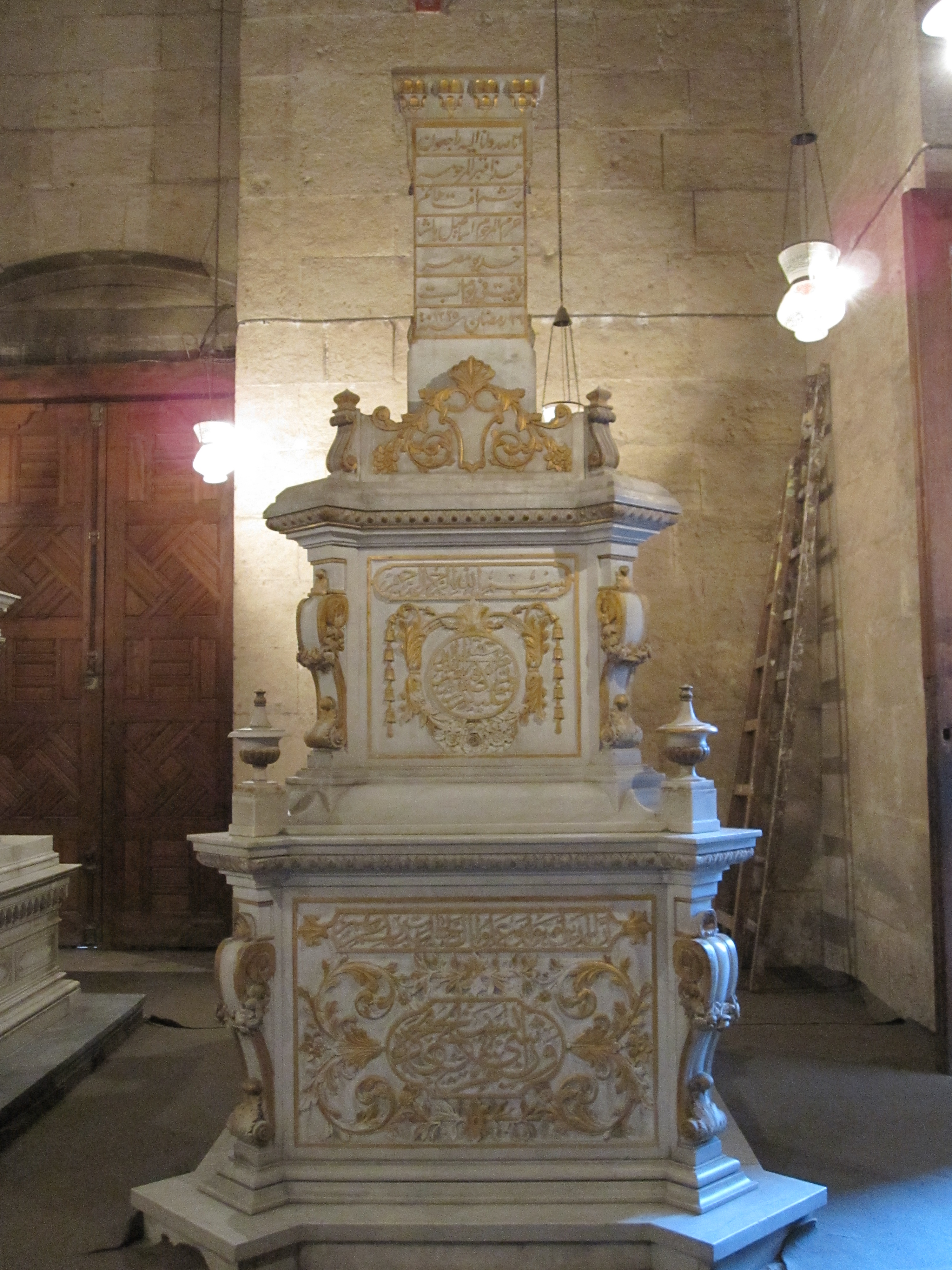 Tomb of Jeshem Afet Hanem (died in 1907), one of the many wives of Khedive Isma'il Pasha of Egypt. She held the title of Third Princess. The tomb is located in the Rifa'i Mosque in Cairo.